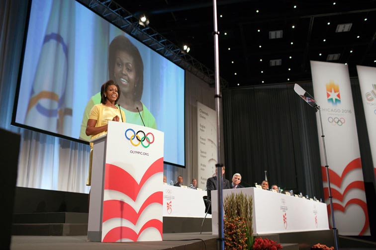 First Lady Michelle Obama speaks in Copenhagen to promote Chicago's bid to host the 2016 Summer Olympic Games at the 121st IOC Session in Copenhagen, Denmark.